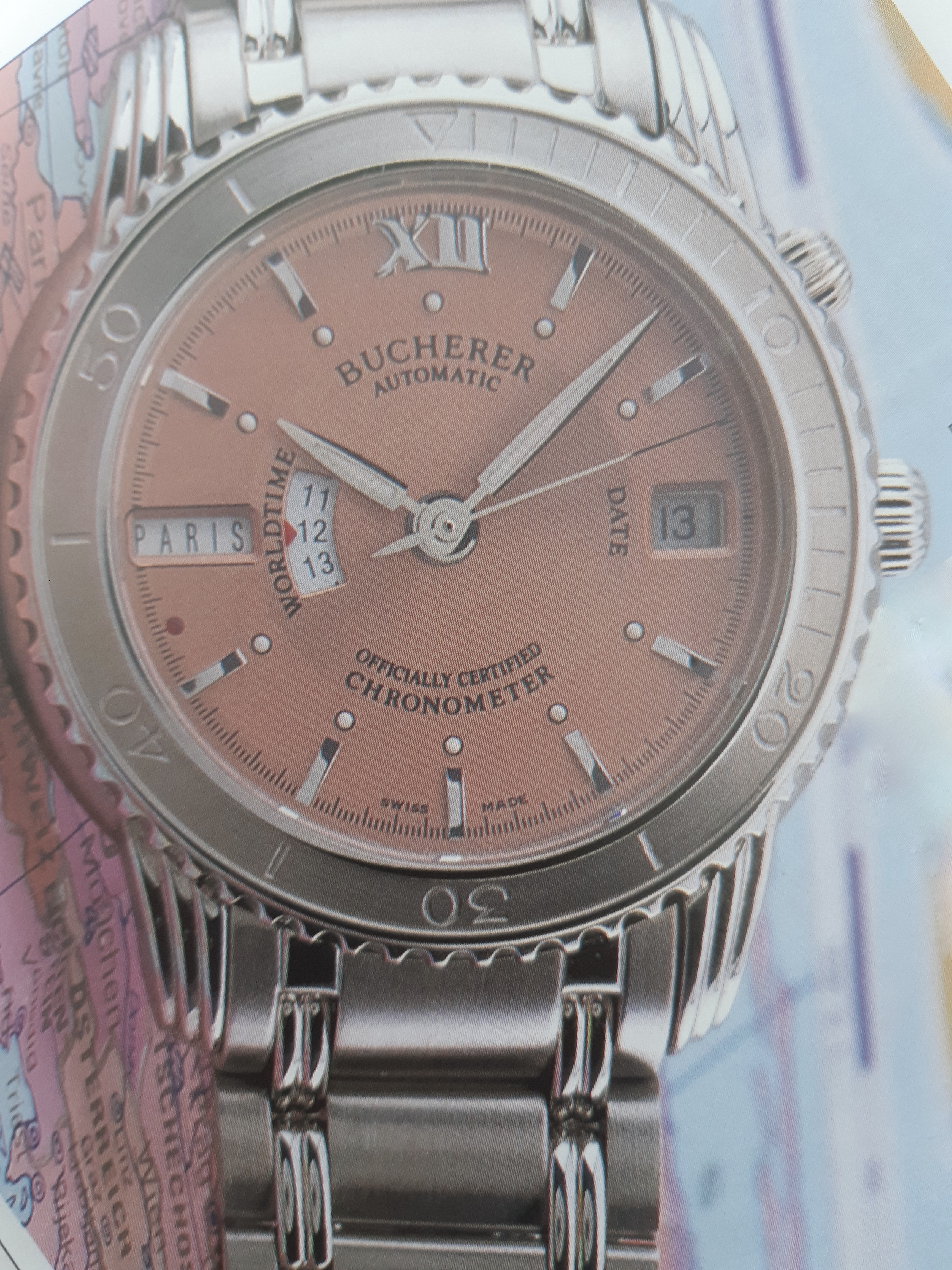 Bucherer Archimedes World Time Watch. Technical data: calibre designation 2892-2 Eta with exclusive world time module (24 hours), patented 1993 (US7897693A) by Tiffany & Co, New York. Diameter of Movements: 27.0 mm. Thickness of vibration: 28'000 semioscillation per hour (Hz). Power Reserve: over 40 hours. Jewels: 21. Finish: Côte de Genève. Special Features: high-precision chronometer movement with official watch rate certificate, rapid date advance, second stop, fine adjustment mechanism, displays the local time of the major cities in the 24 time zones.The clockwork with a patented world time module was exclusively produced for Bucherer Archimedes and Tiffany Streamerica between 1993-99 by Dubois-Dépraz manufacture de complications (Le Lieu, Suisse). Only a low number of this watch has been produced for Bucherer.